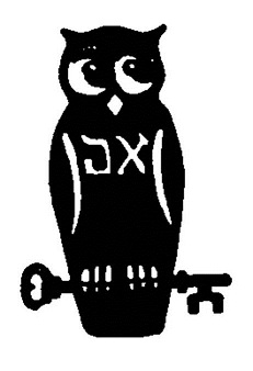 Small version of the Aleph Samach symbol, Cornell University junior honor society.